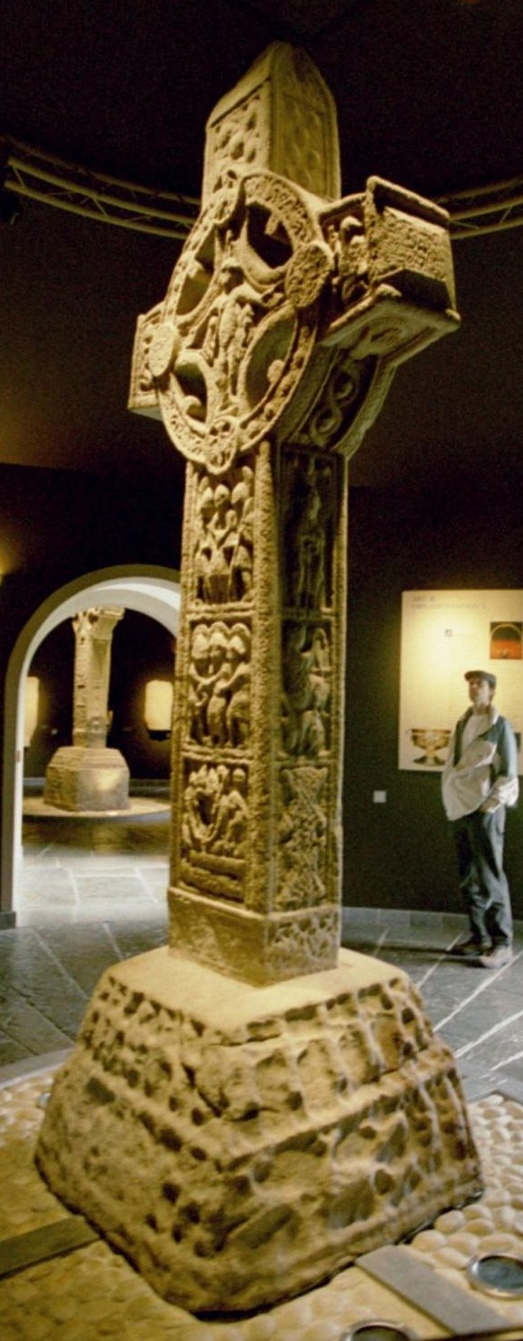 Clonmacnois, County Offaly, Ireland Cross of the Scriptures, South West View